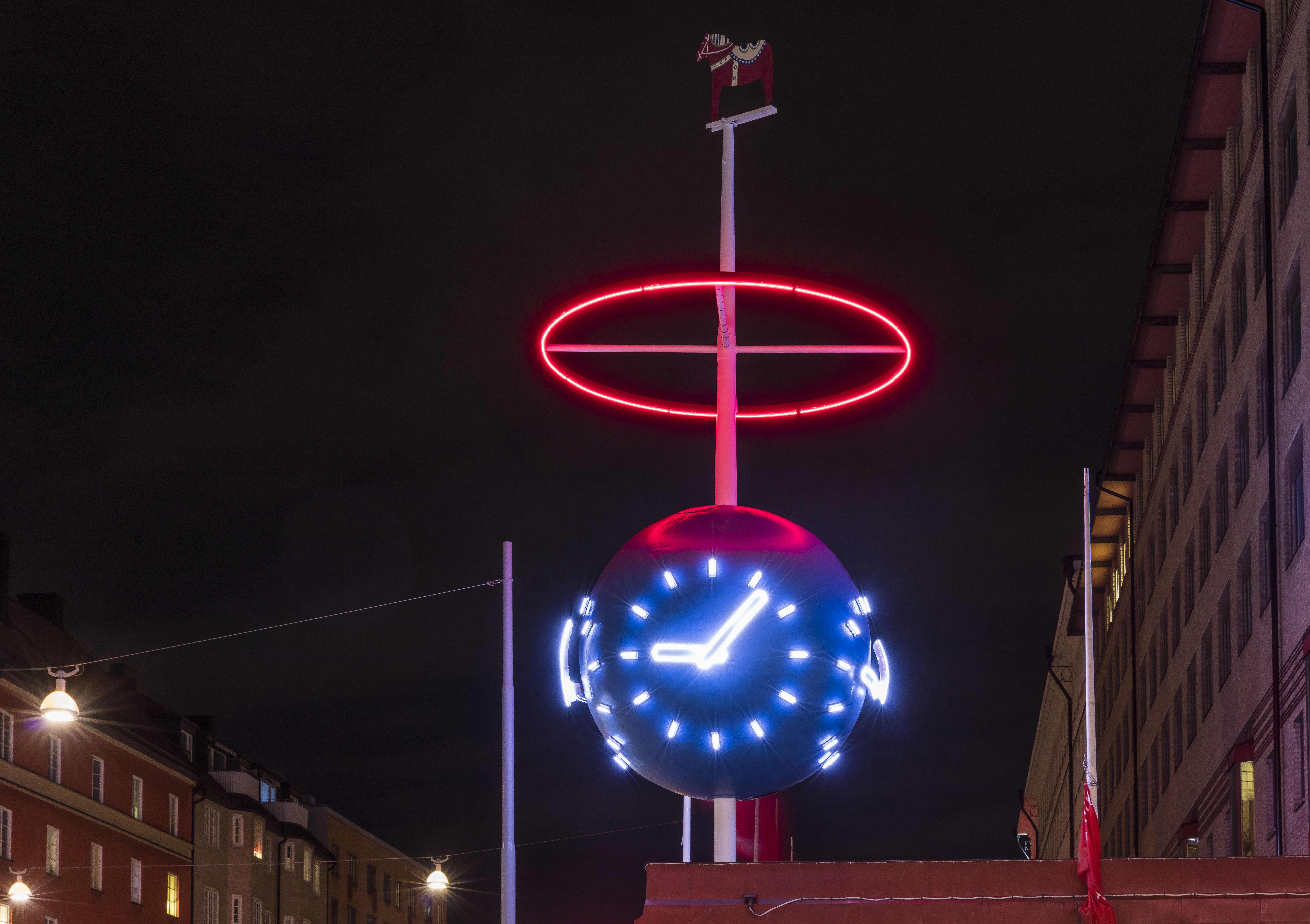 FOTOGRAFITidskulan på Åhlens Skanstull. Fotograferad vid halvtiotiden på kvällen den 7 september 2017. -FOTOGRAF: Ek, Mattias.BILDNUMMER:Stadsmuseet i Stockholm